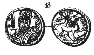 Henry I of Brabant